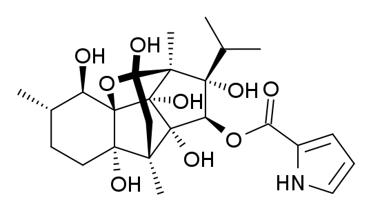 i drew this anyone can use it